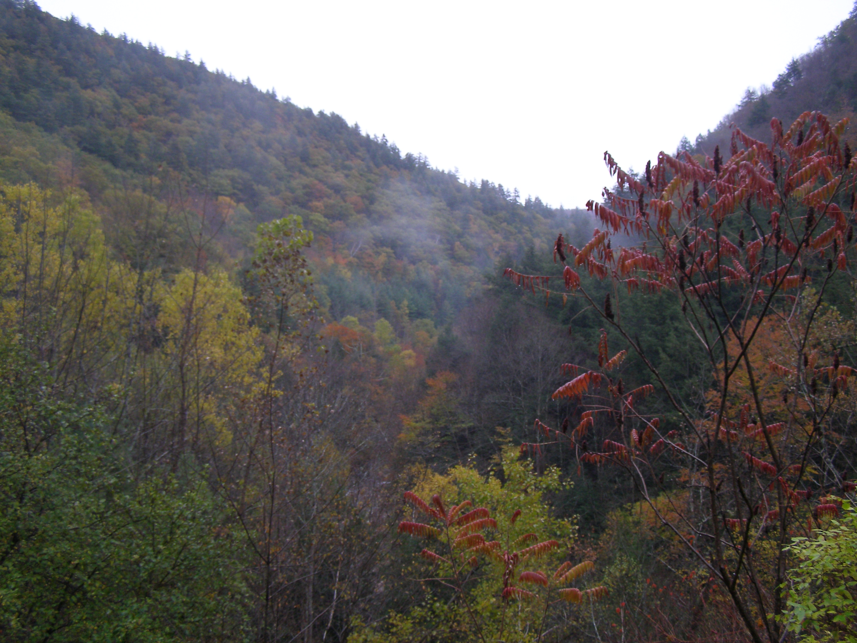 View from the Mohawk Trail, MA/VT, at the east trail end